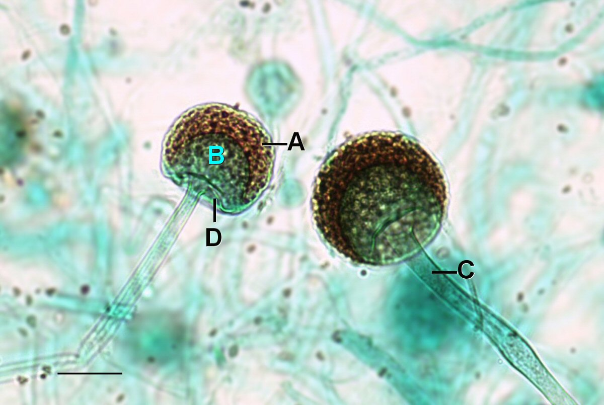 Light microscopy of Rhizopus showing a close up view of two sporangium of Rhizopus where the differentiation between the spores and columella can be seen attached to the hypha. A=Sporangium with spores, B=Columella, C=Hypha, D=Apophysis. Scale bar = 0.1mm.